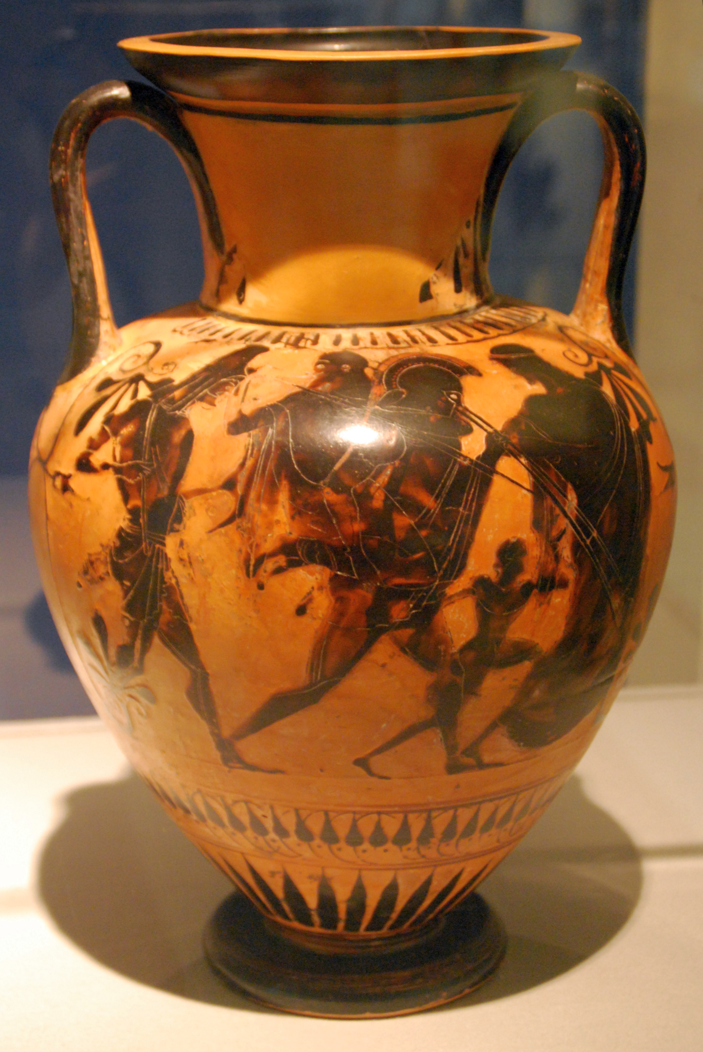 Attic black-figure neck amphora attributed to thePainter of Munich 1519; Aeneas flight with Anchisis, Iulos and a forth person from Troy, protected by Aphrodite; about 510 BC; found in Etruria; Museum August Kestner Hanover; Inventary number 754; former collection A. Kestner